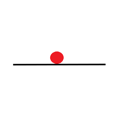 nötr denge